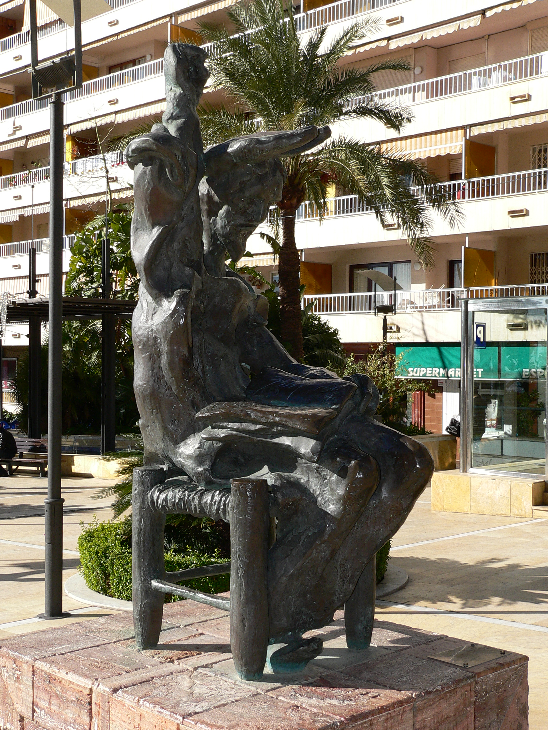 Description: Don Quijote sentado Subject: Sculpture Artist : Salvador Dalí City : Marbella Country : Spain Photographer: © Manuel González Olaechea y Franco Shot date : January, 3rd, 2006